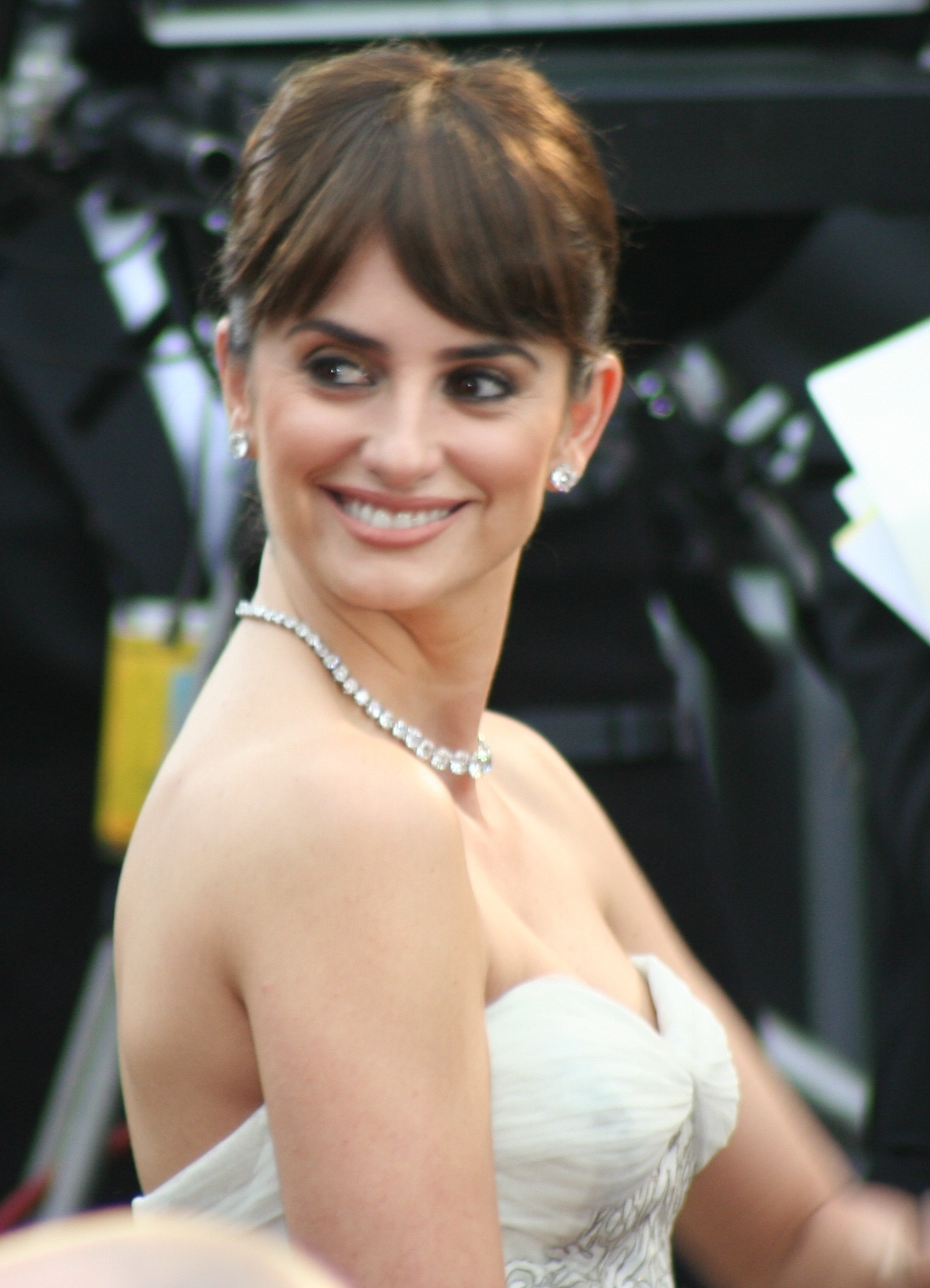 Penélope Cruz at the 81st Academy Awards depicted person: Penélope Cruz (age: 34.82)